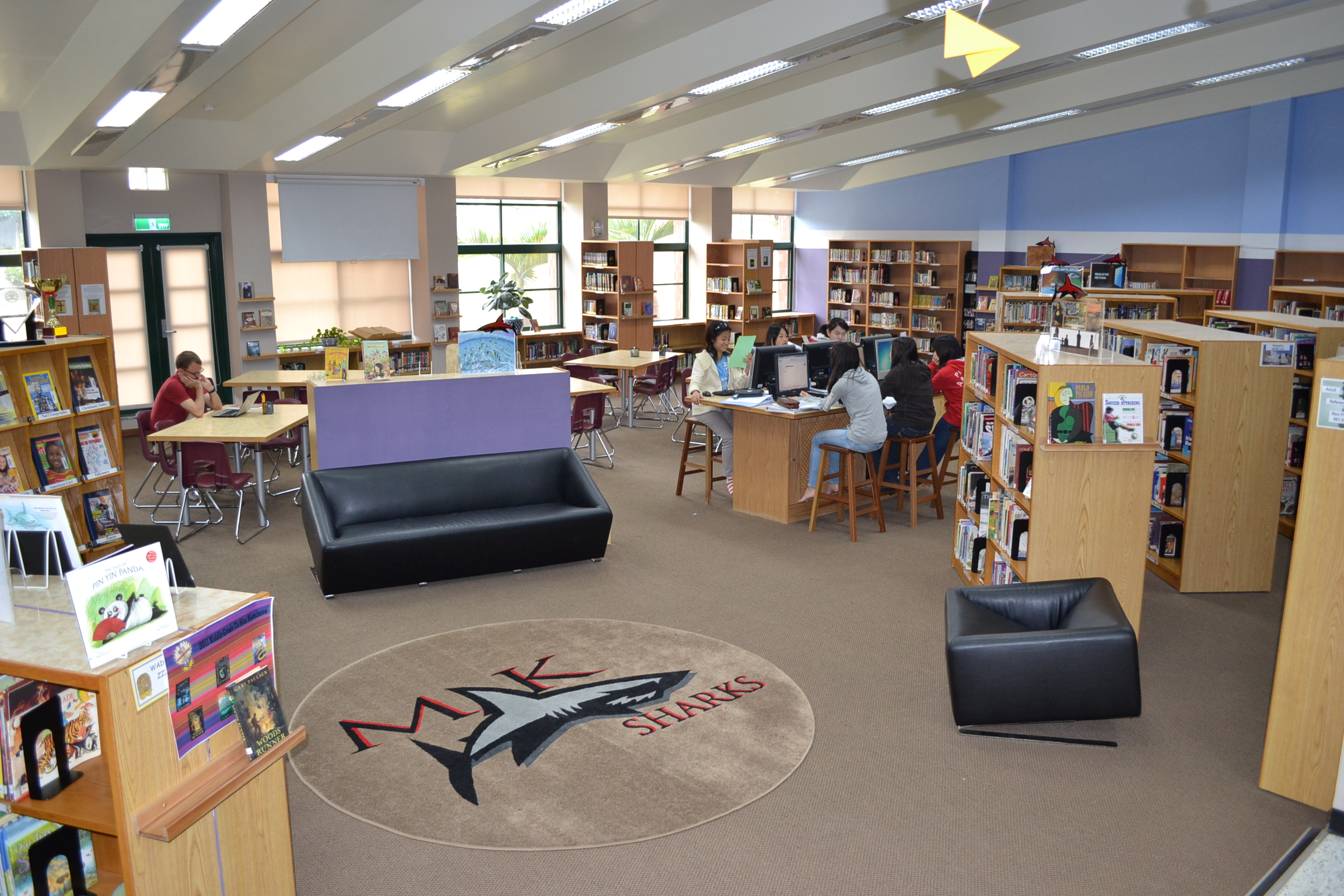 The MAK library